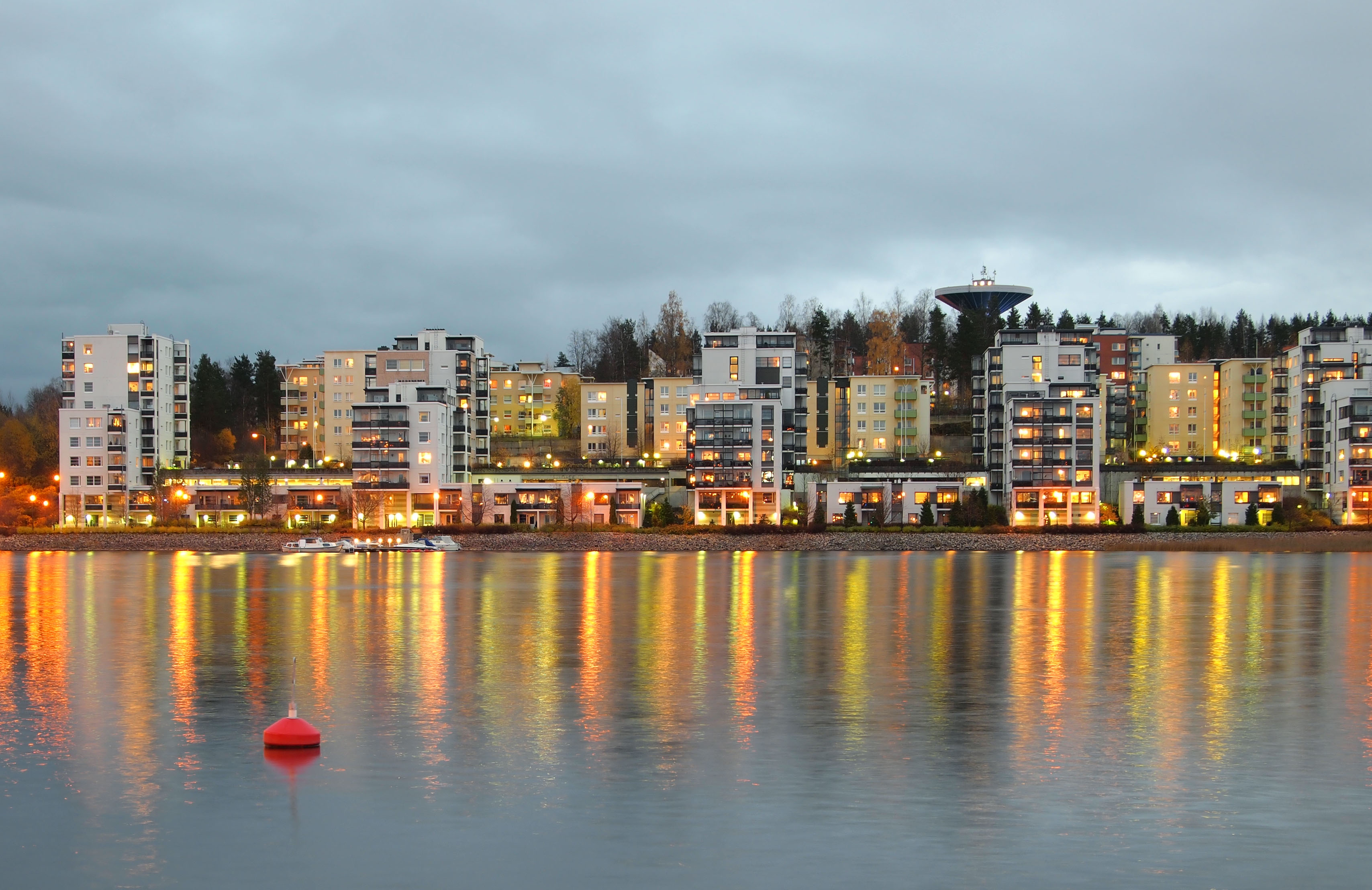 View from Jyväskylä Harbour to Ainola.